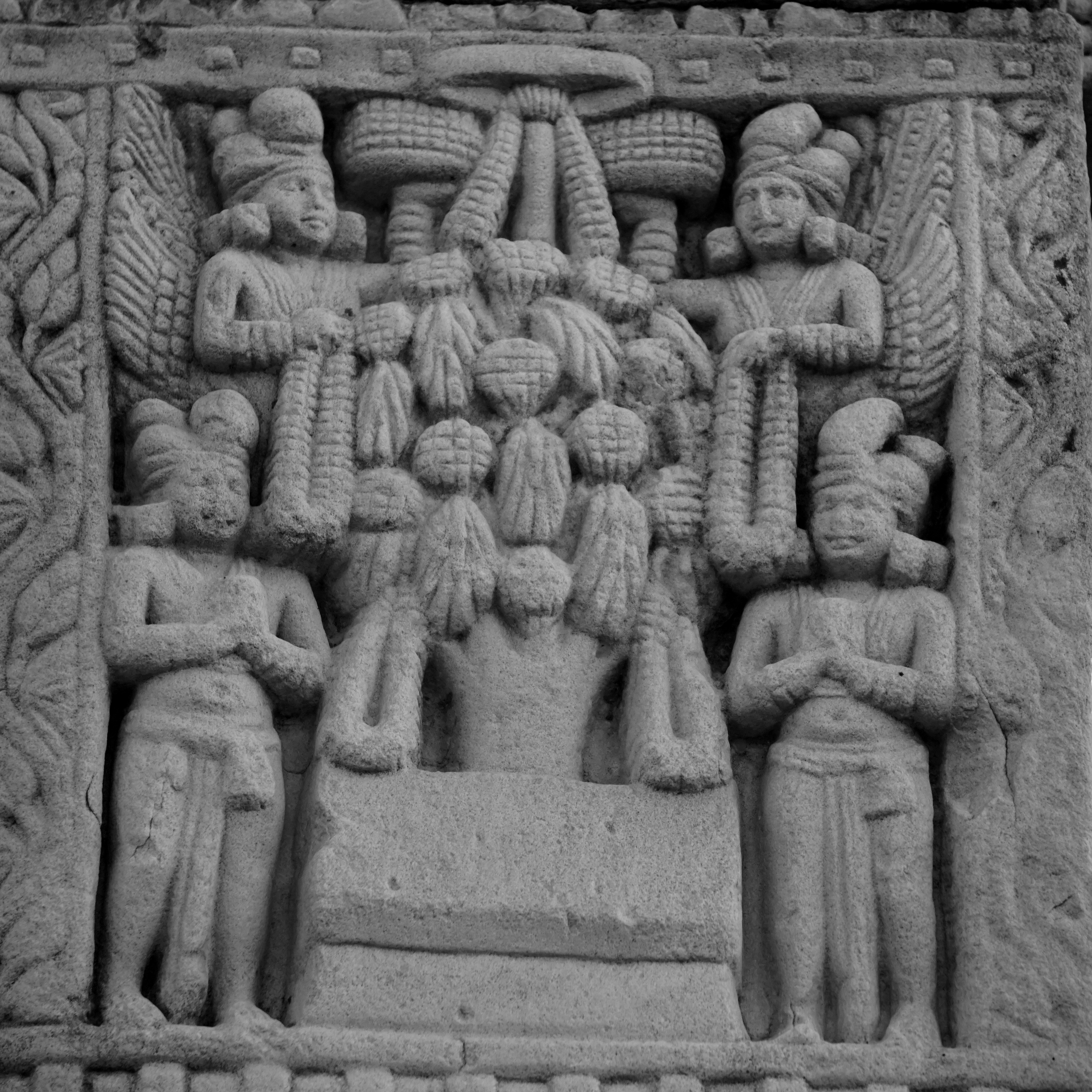 25 Bodhi Tree, Sanchi Stupa no. 3, photograph by Anandajoti Bhikkhu Bhaja Caves, Lonavala, India